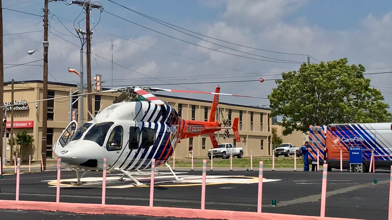 CareFlite N428CF at Texas Health Harris Methodist Stephenville Hospital helipad, intersection of Graham and Tarleton. CareFlite ground ambulance in background.